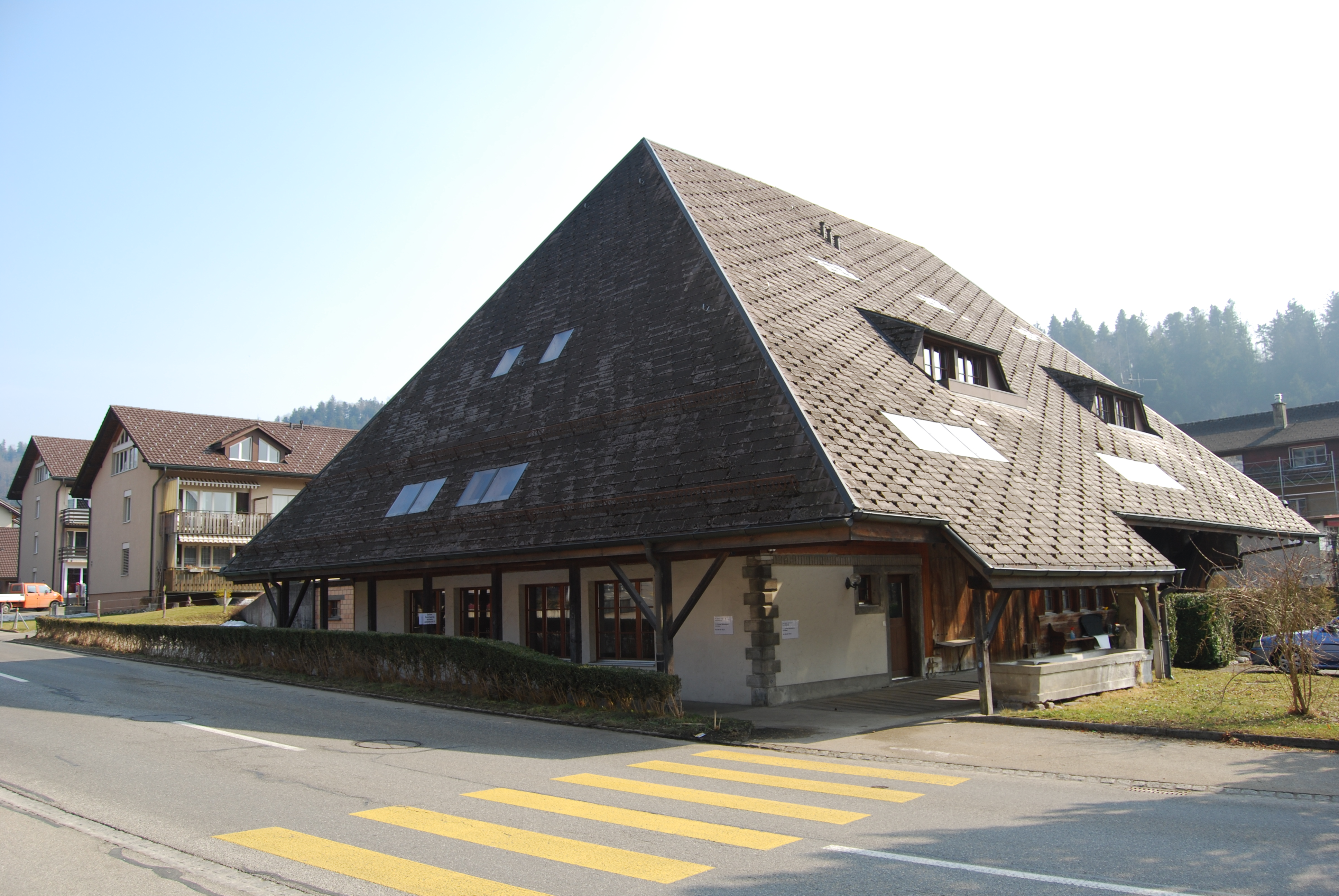 Grünen, municipality of Sumiswald, canton of Bern, Switzerland